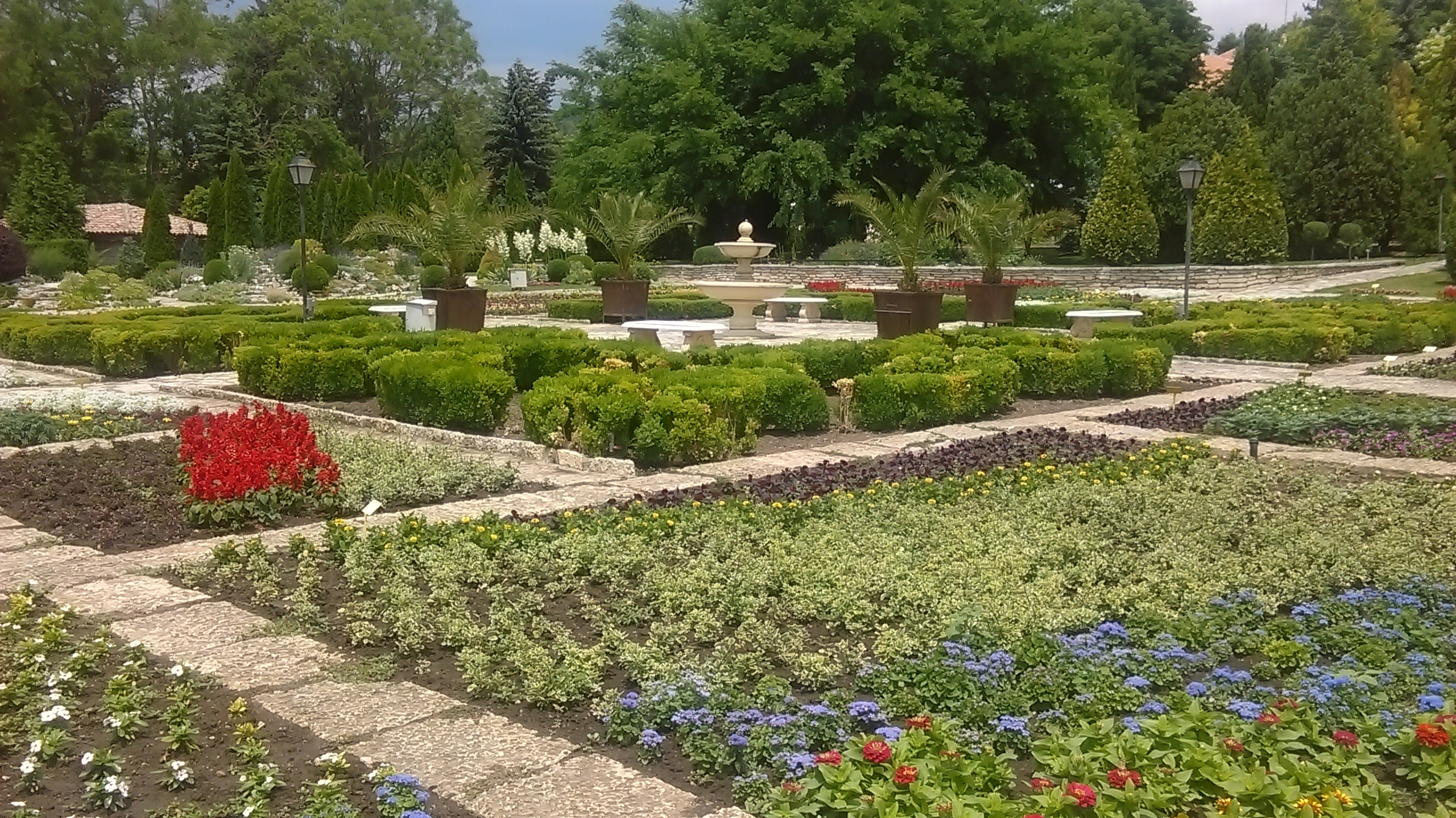 Sofia University Botanical garden in Balchik, Bulgaria